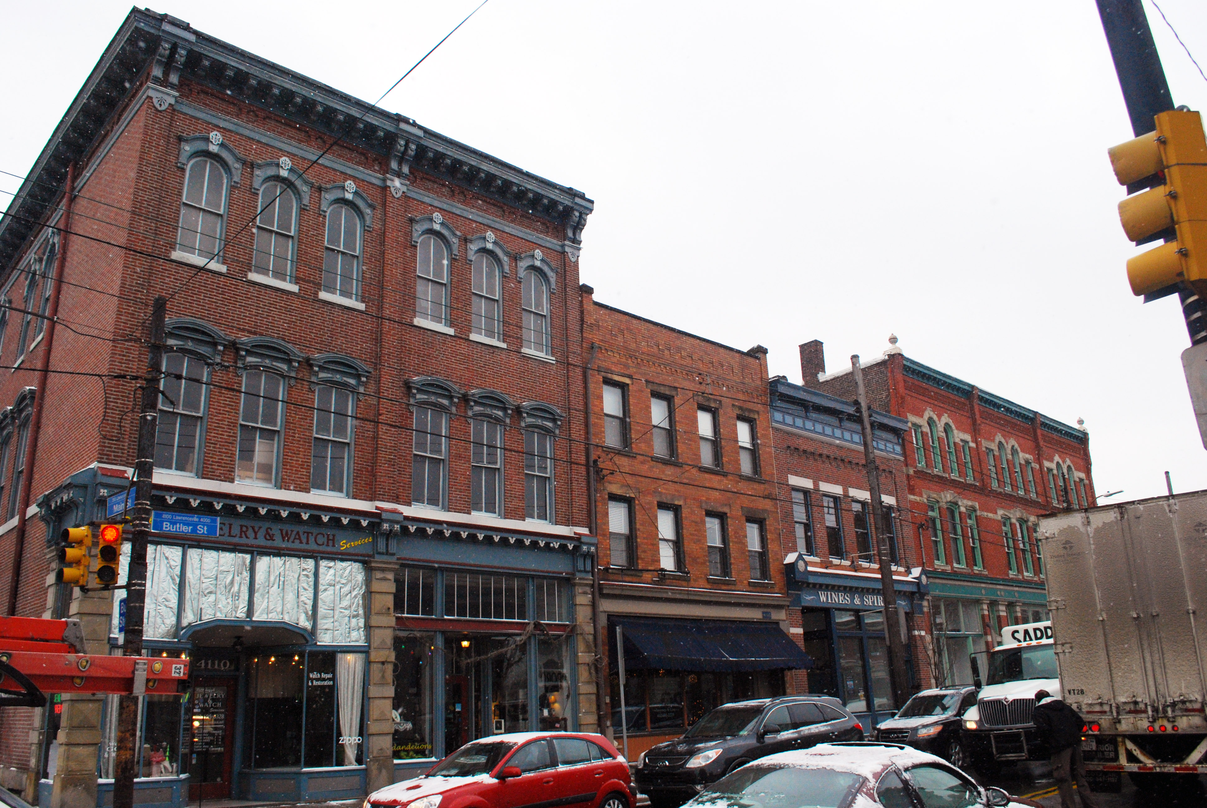 Architecture common to Upper Lawrenceville, Pittsburgh.